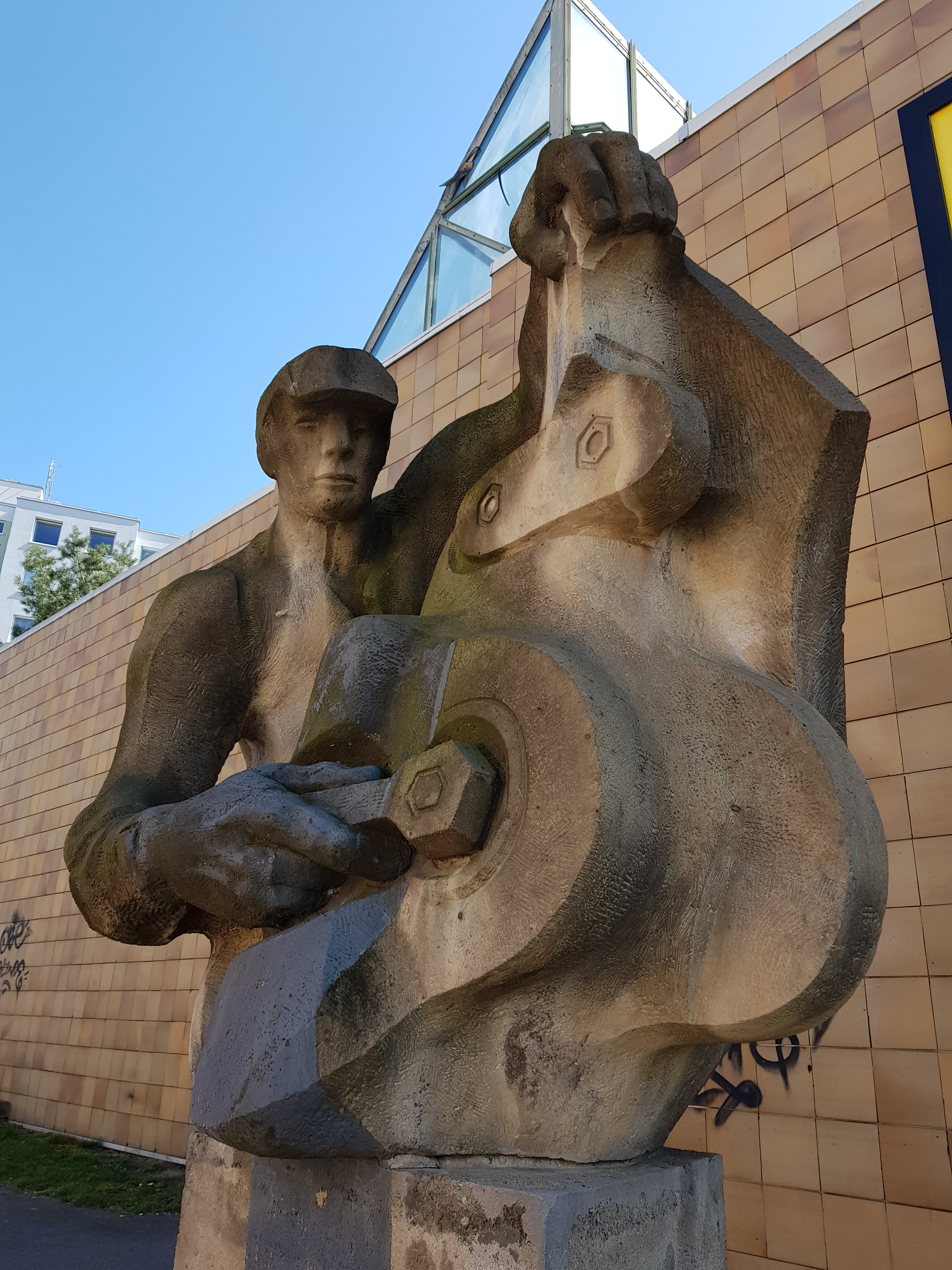 Statue of assembler (installer) by Vojtěch Adam in Kardašovská Street in Prague from 1987